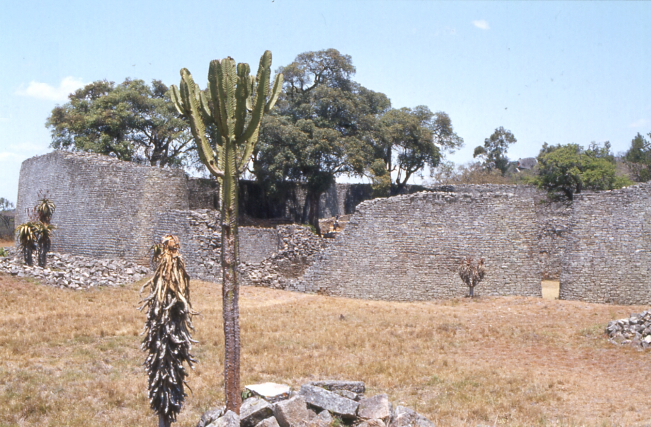 Great Zimbabwe, circumferential wall